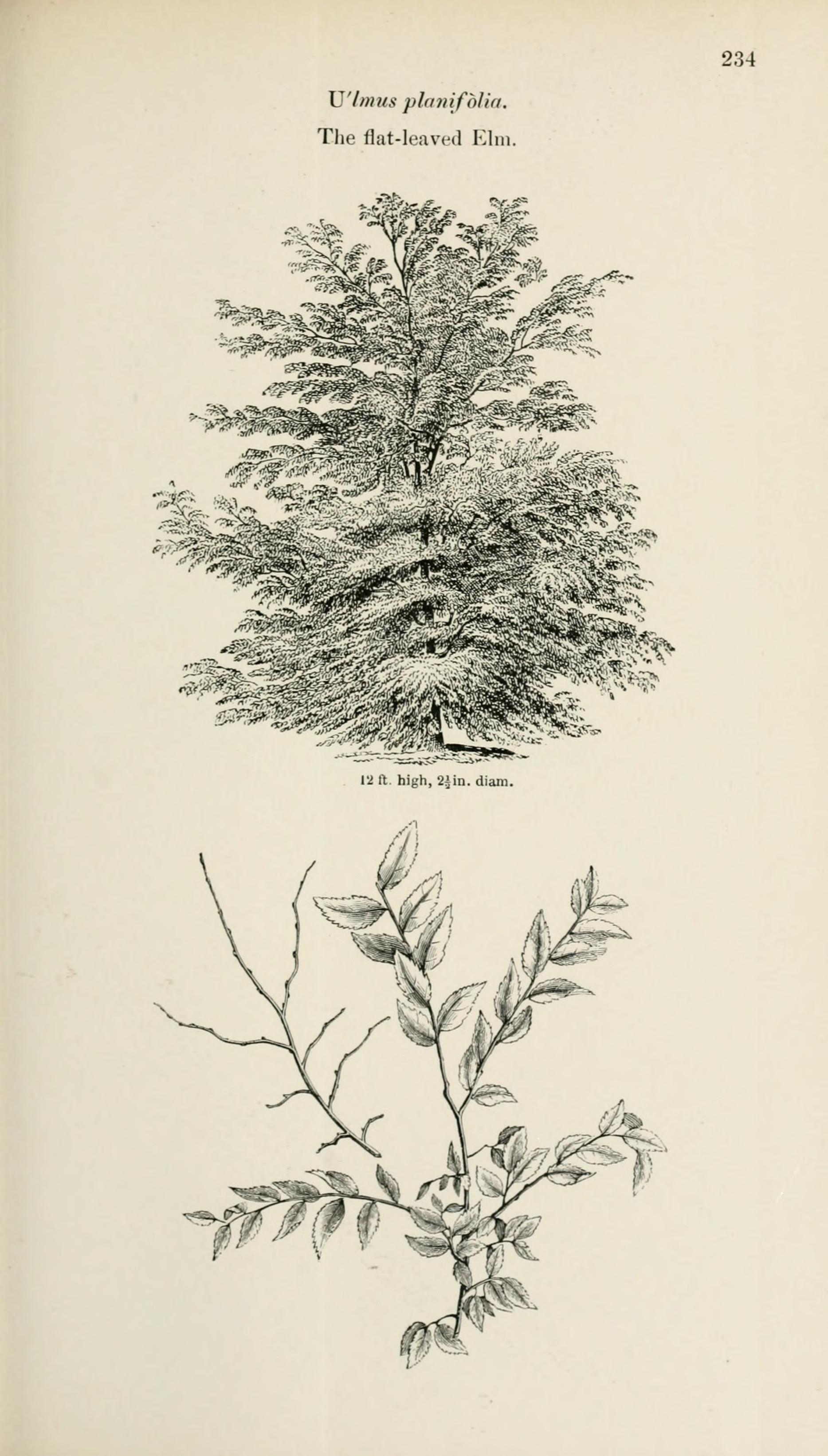 Ulmus planifolia. The flat-leaved Elm. p.234